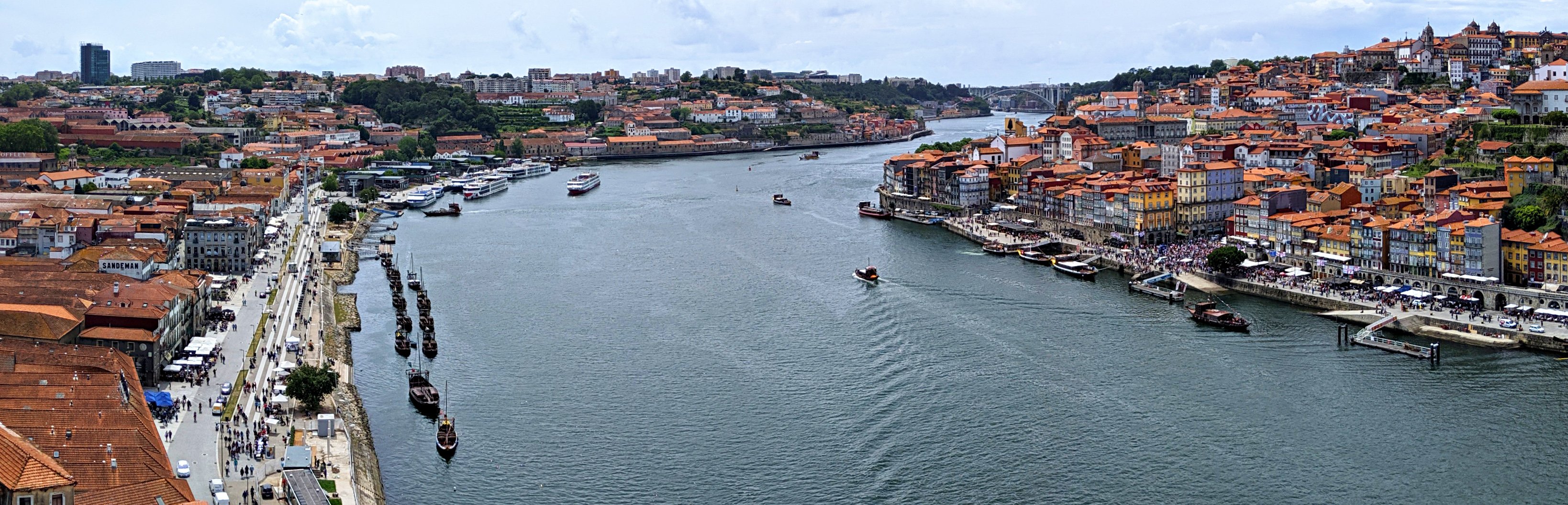 Panoramic view of Vila Nova de Gaia (left), the Douro River, and Porto (right) pano from Dom Luís I Bridge